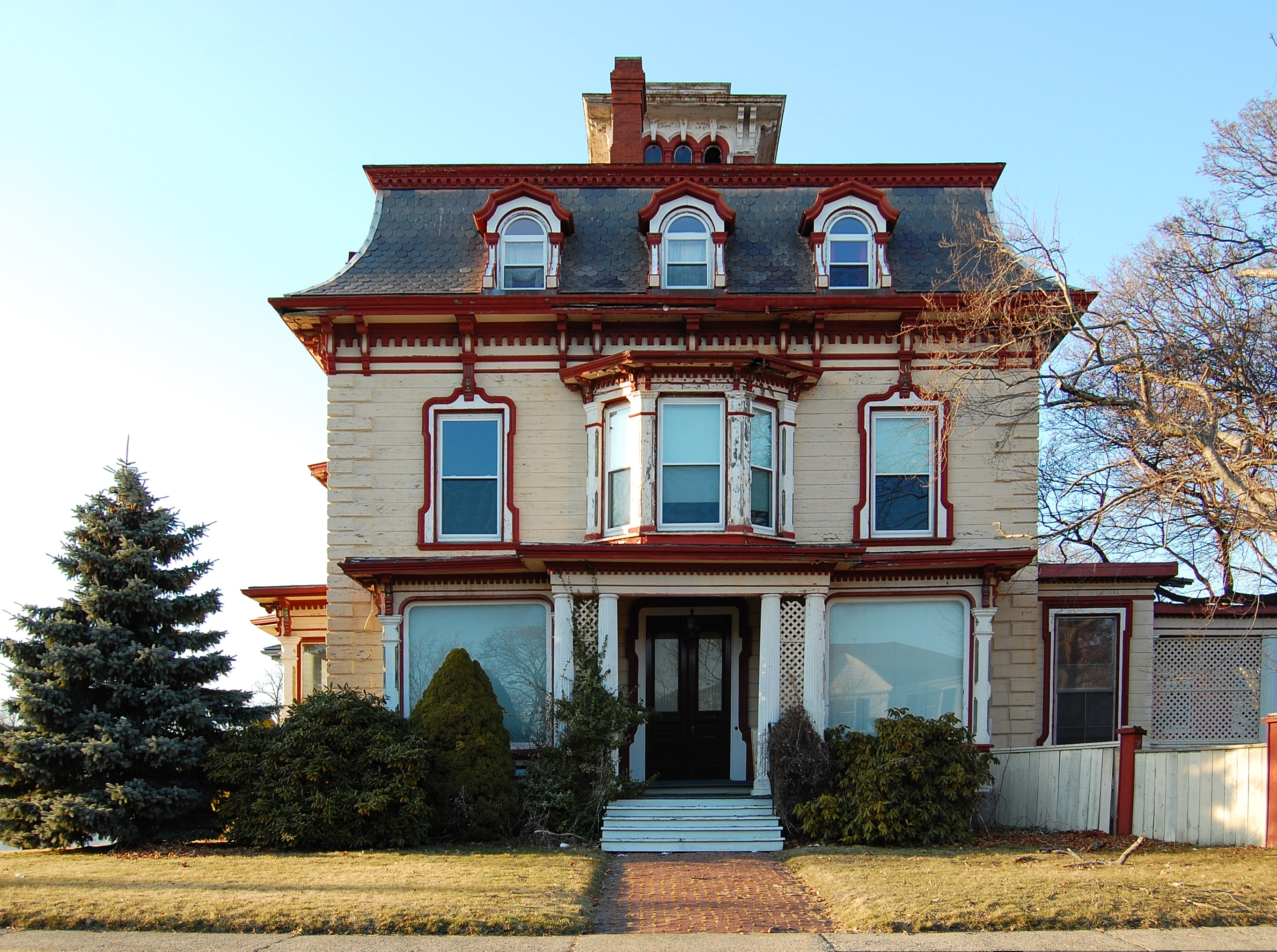 Lucian Newhall house @ 281 Ocean St in the Diamond District of Lynn, Massachusetts. Built 1866 in the Second Empire style of architecture popular in the mid nineteenth century U.S. Newhall was a prominent businessman in Lynn involved in real estate and the shoe manufacturing industry (source)